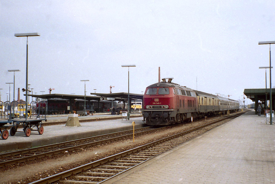 DB-Diesel engine 218 348-1 in the train station Muehldorf, waiting for departure with a local train to Munich